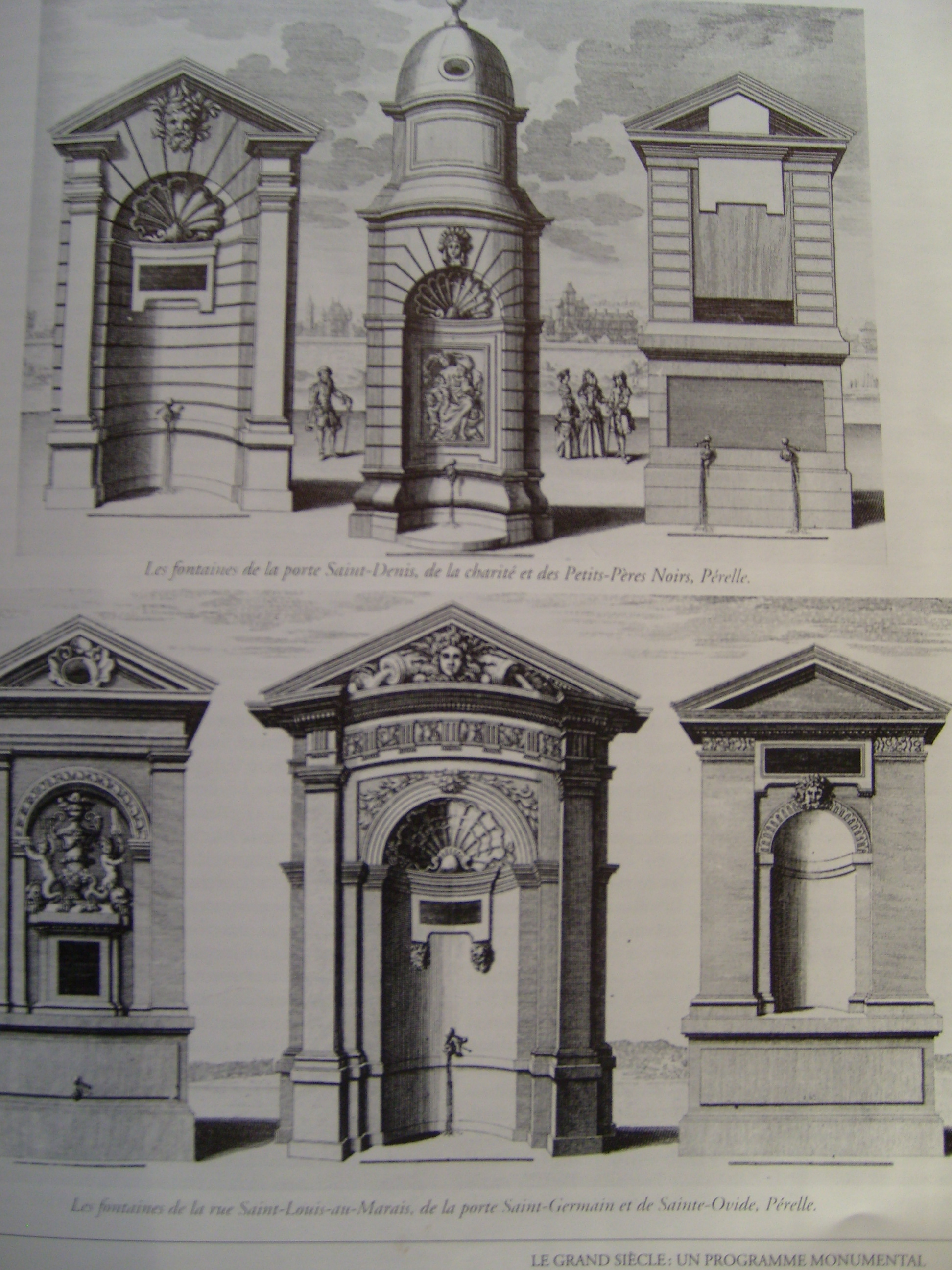 Six Paris fountains from about 1670 17th century, engraving by Perelle. Fountains of porte Saint-Denis, de la charite, Petits-Pères Noires (top), rue Saint-Louis-au-Marais, porte Saint-Germain, Sainte-Ovide (bottom). Source: Bibliotheque d'Art et de l'Archeologie, Paris